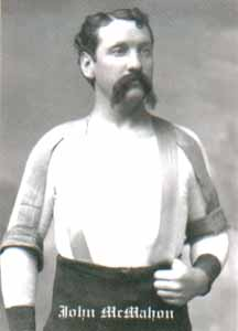 Photo of professional wrestler John McMahon taken in1912 1912.